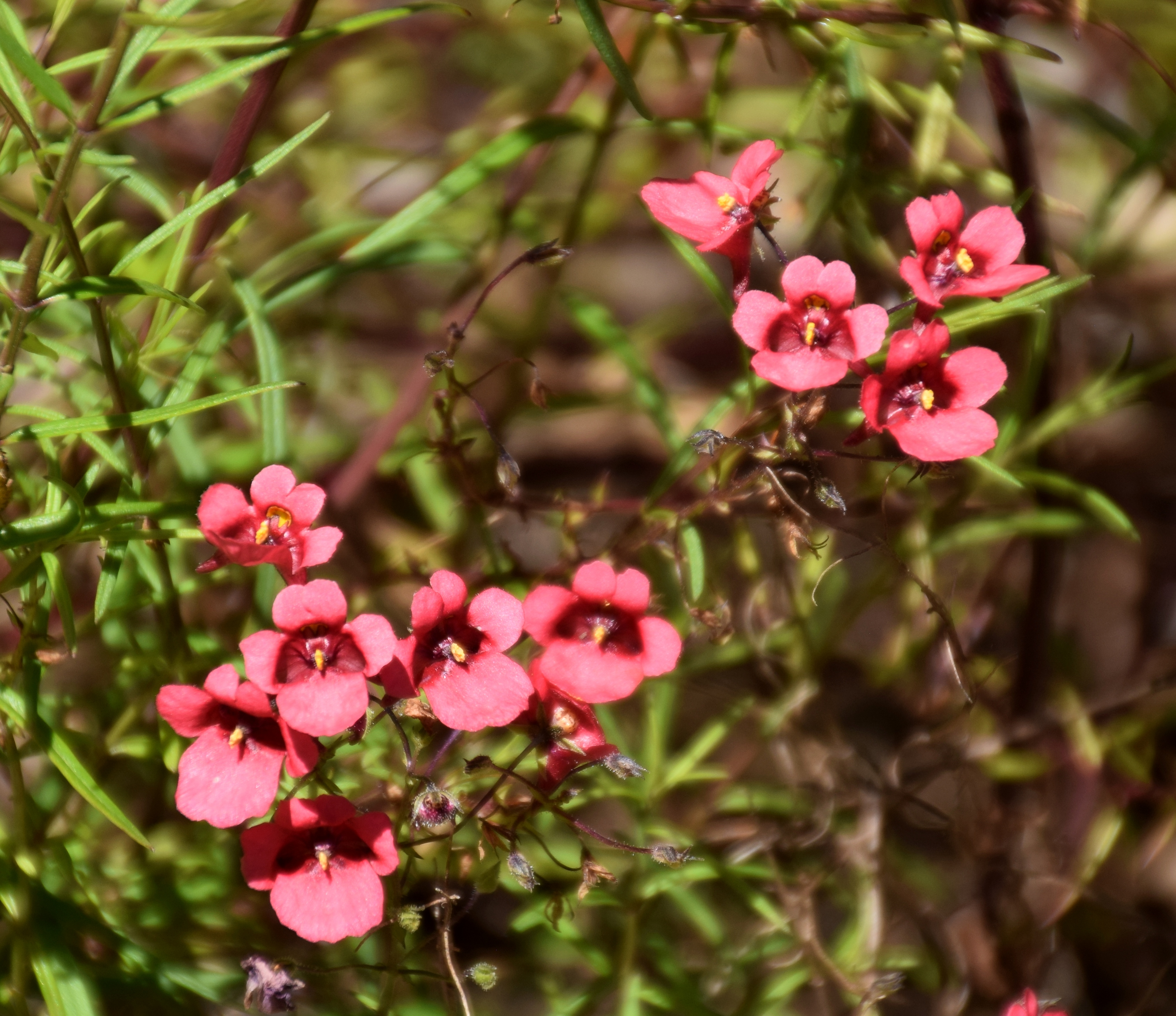 Diascia patens in Dunedin Botanic Garden, Dunedin, New Zealand